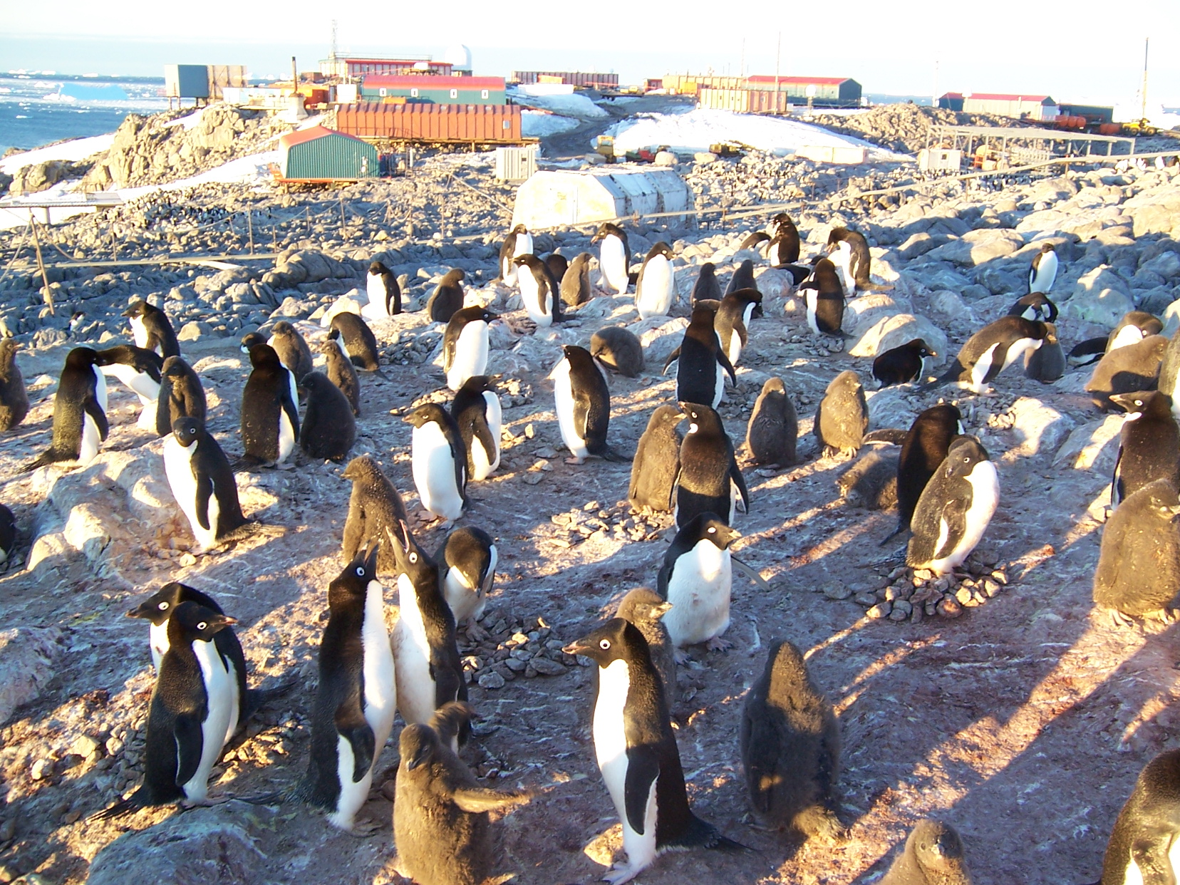 Colony of Adelie Penguin taken near the French Dumont d'Urville Station on Adélie Land, Antarctica.